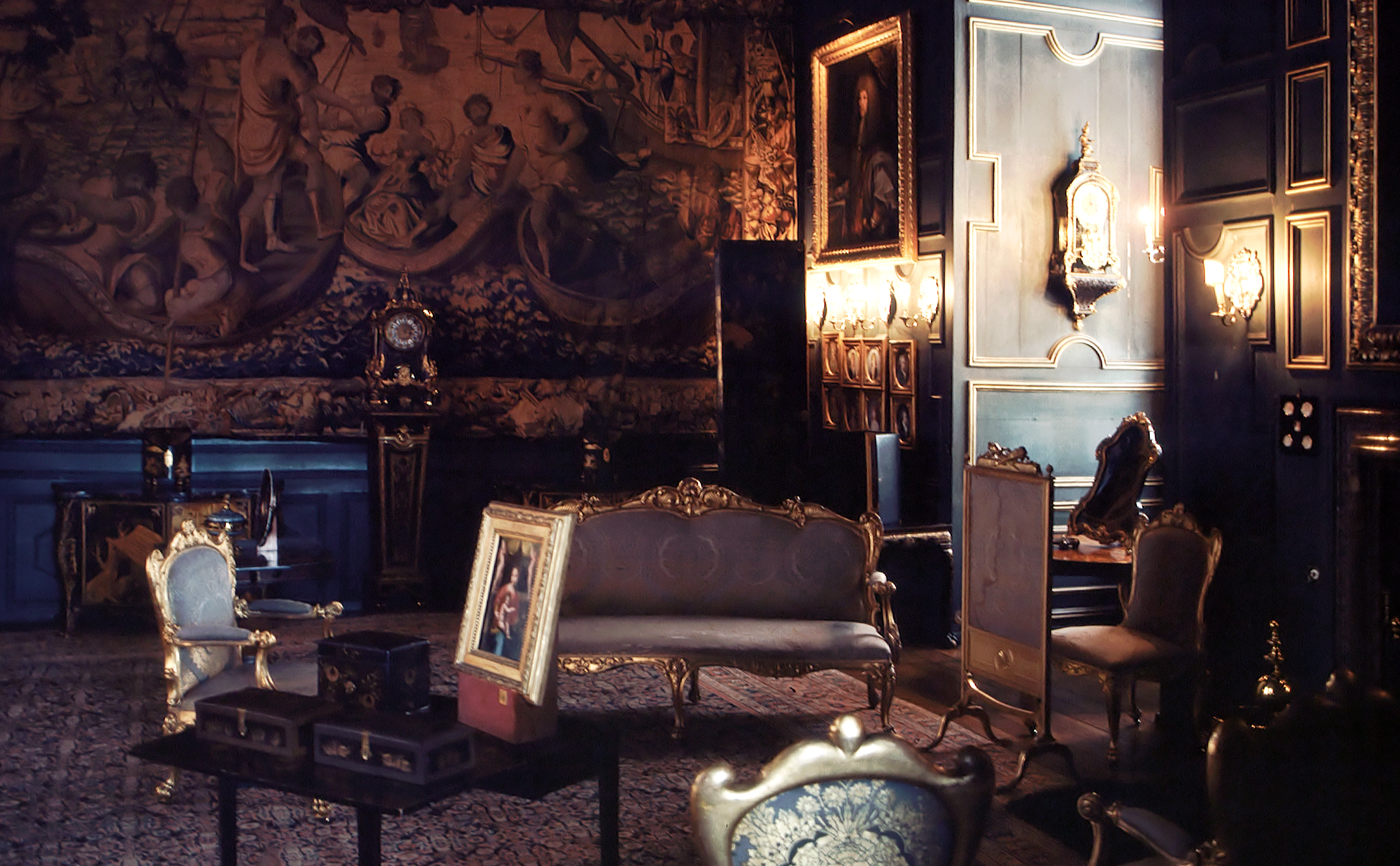 Powys Castle, located in the county of Powys in Wales/UK, Interior